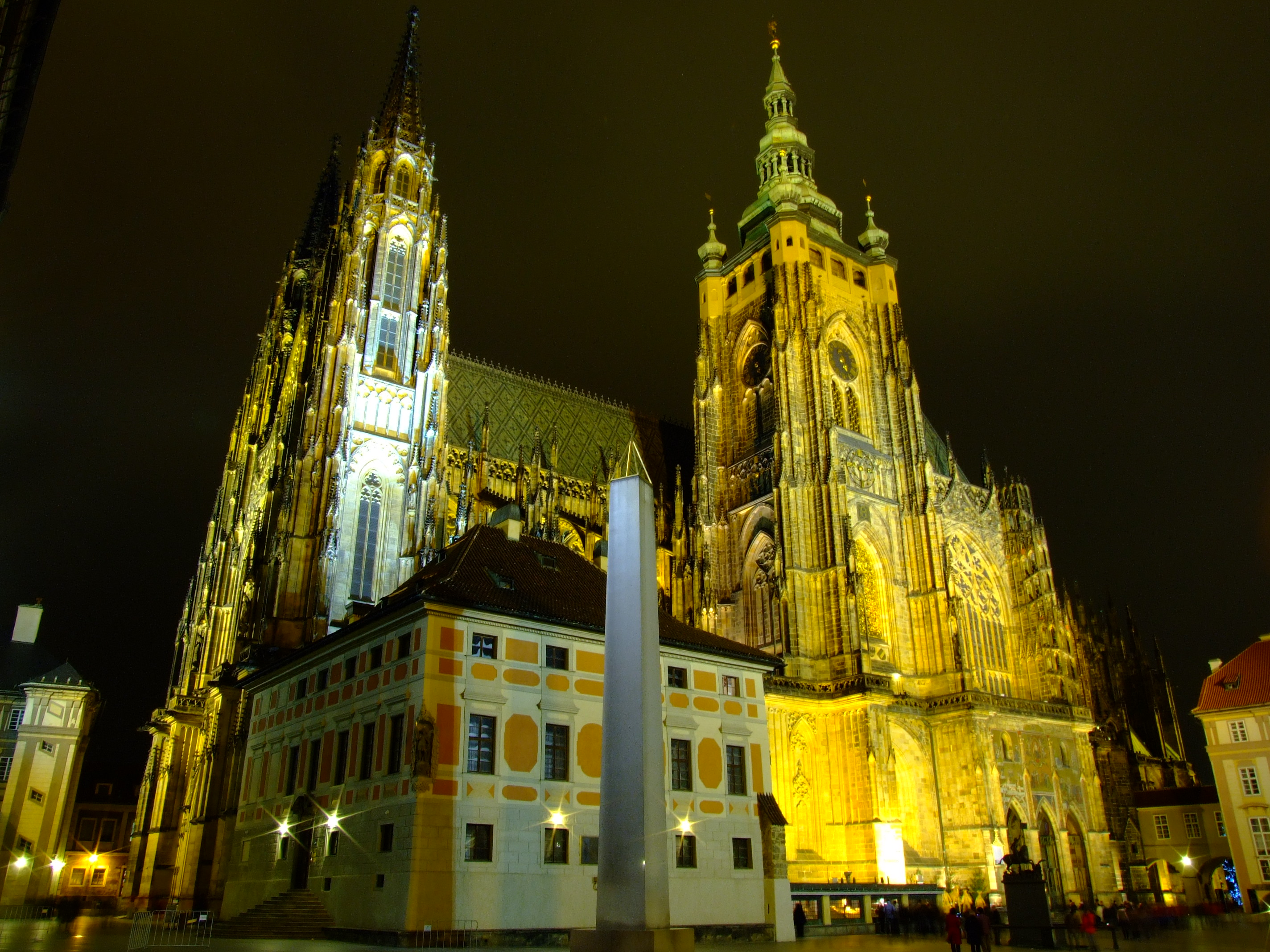 Saint Vitus Cathedral in Prague, Czech Republichelp